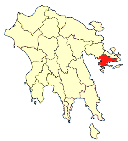 ermionida